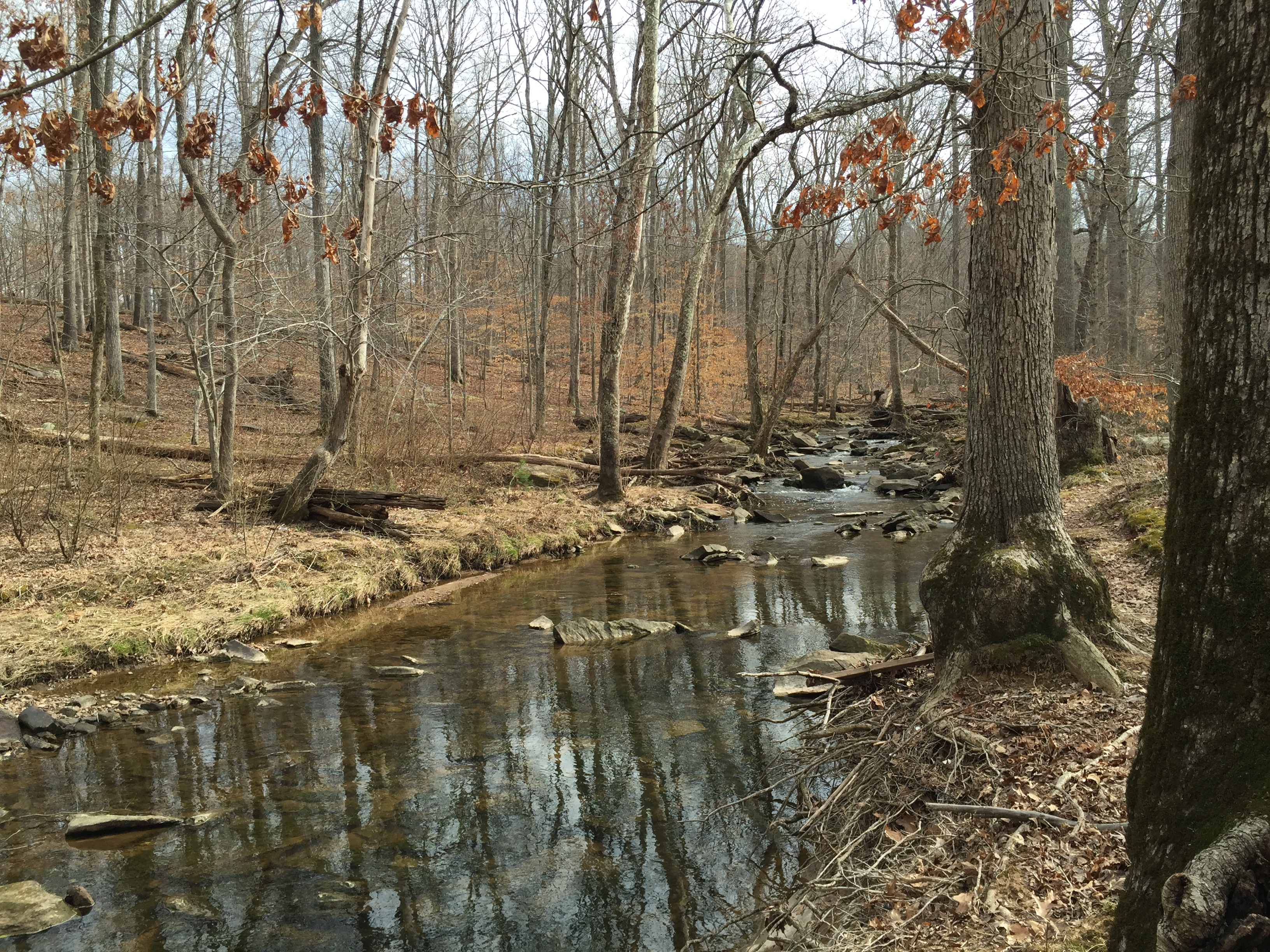 View east up Big Rocky Run within Ellanor C. Lawrence Park in Fairfax County, Virginia